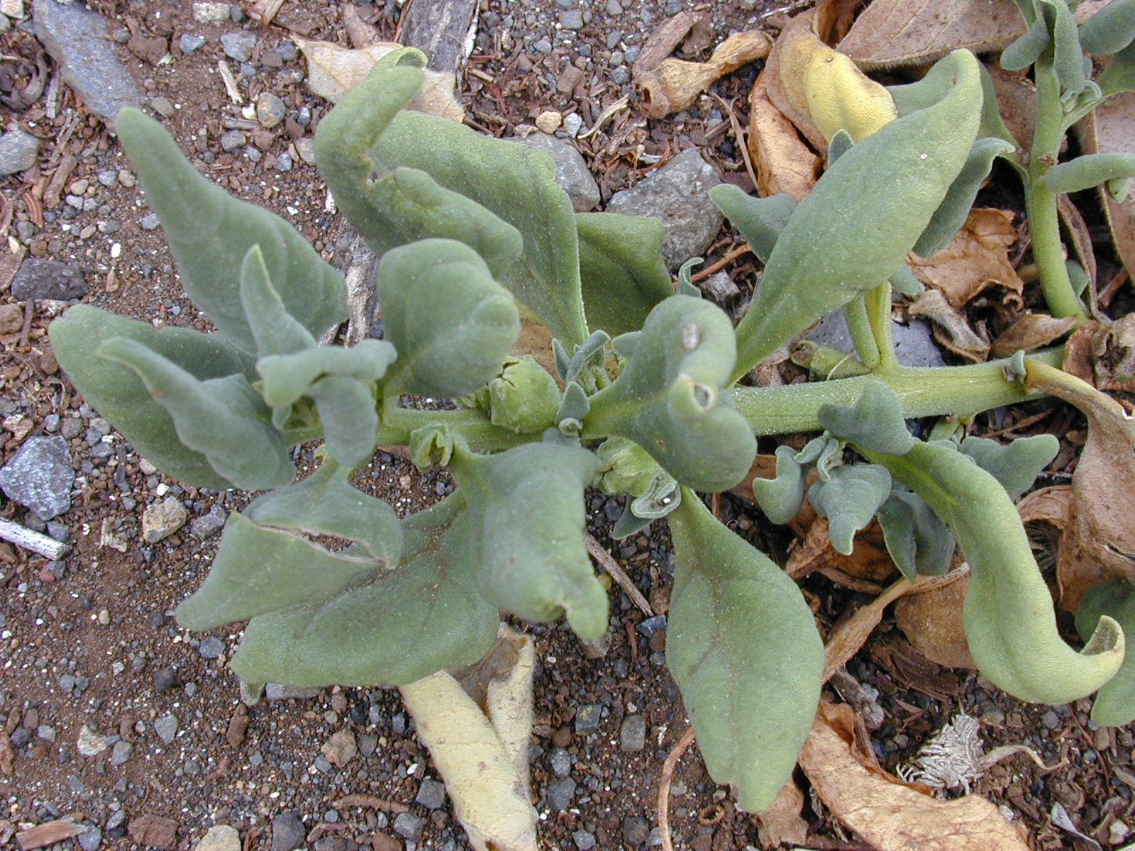 Tetragonia tetragonioides (leaves). Location: Maui, Kula